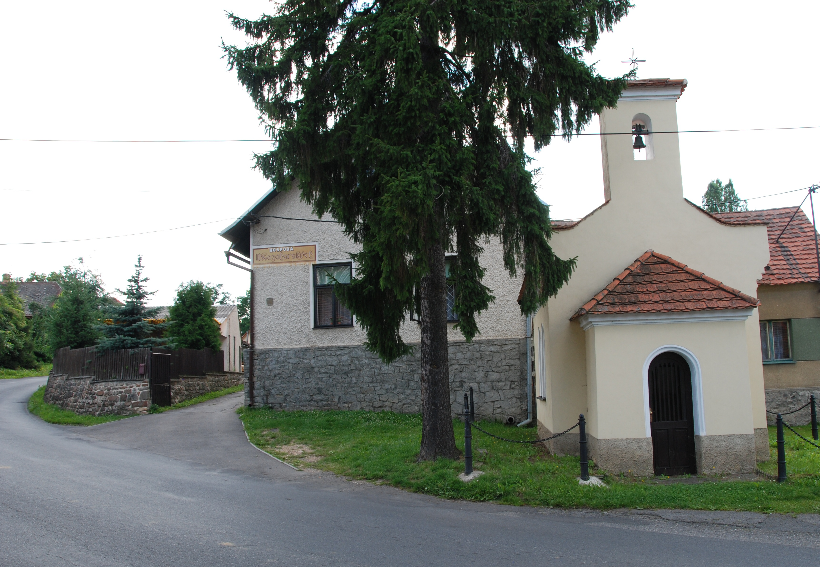 This photograph was taken within the scope of the second year of the 'Czech Municipalities Photographs' grant.